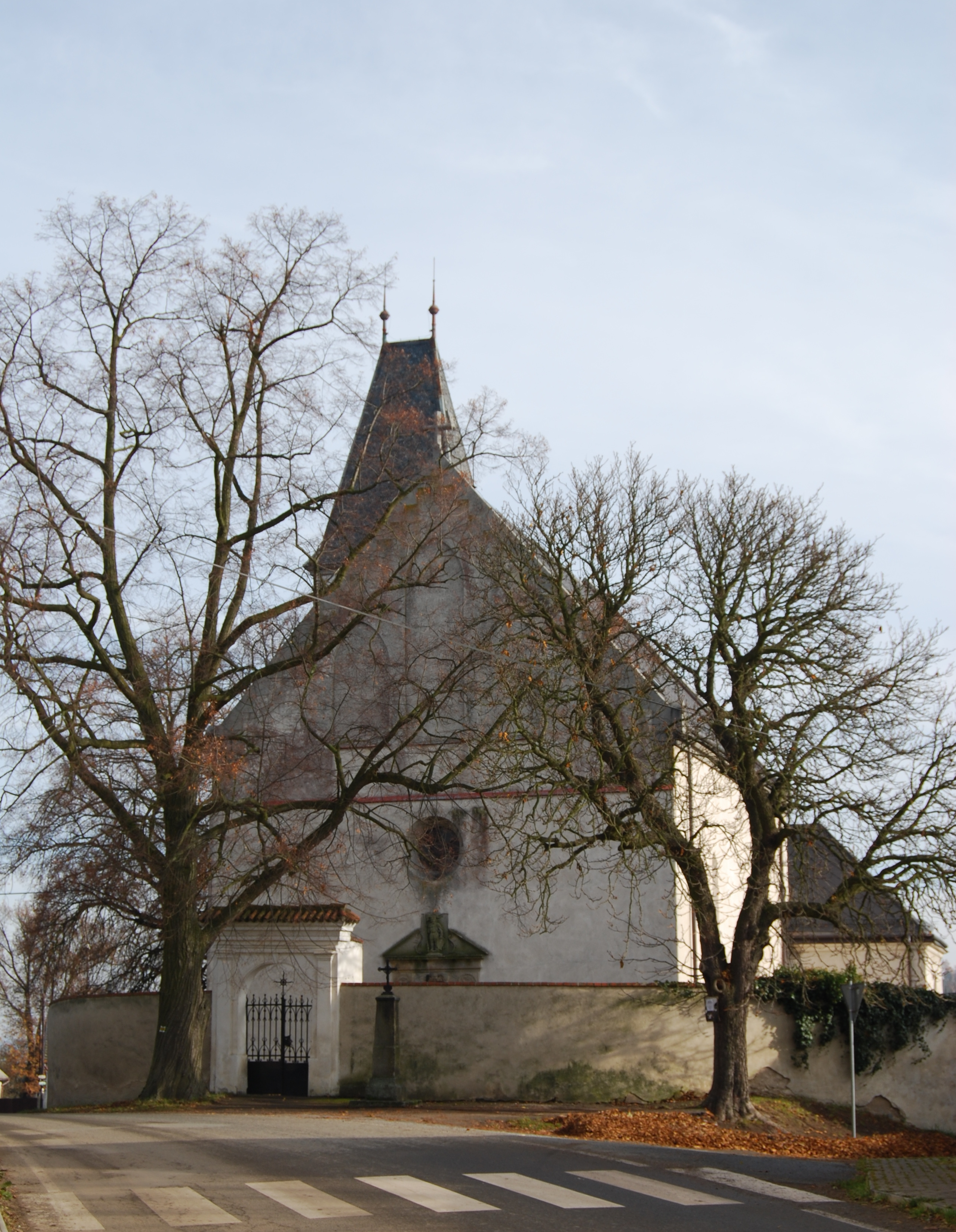 Bubovice, parf of Volenice village in Příbram District, Czech Republic. Church